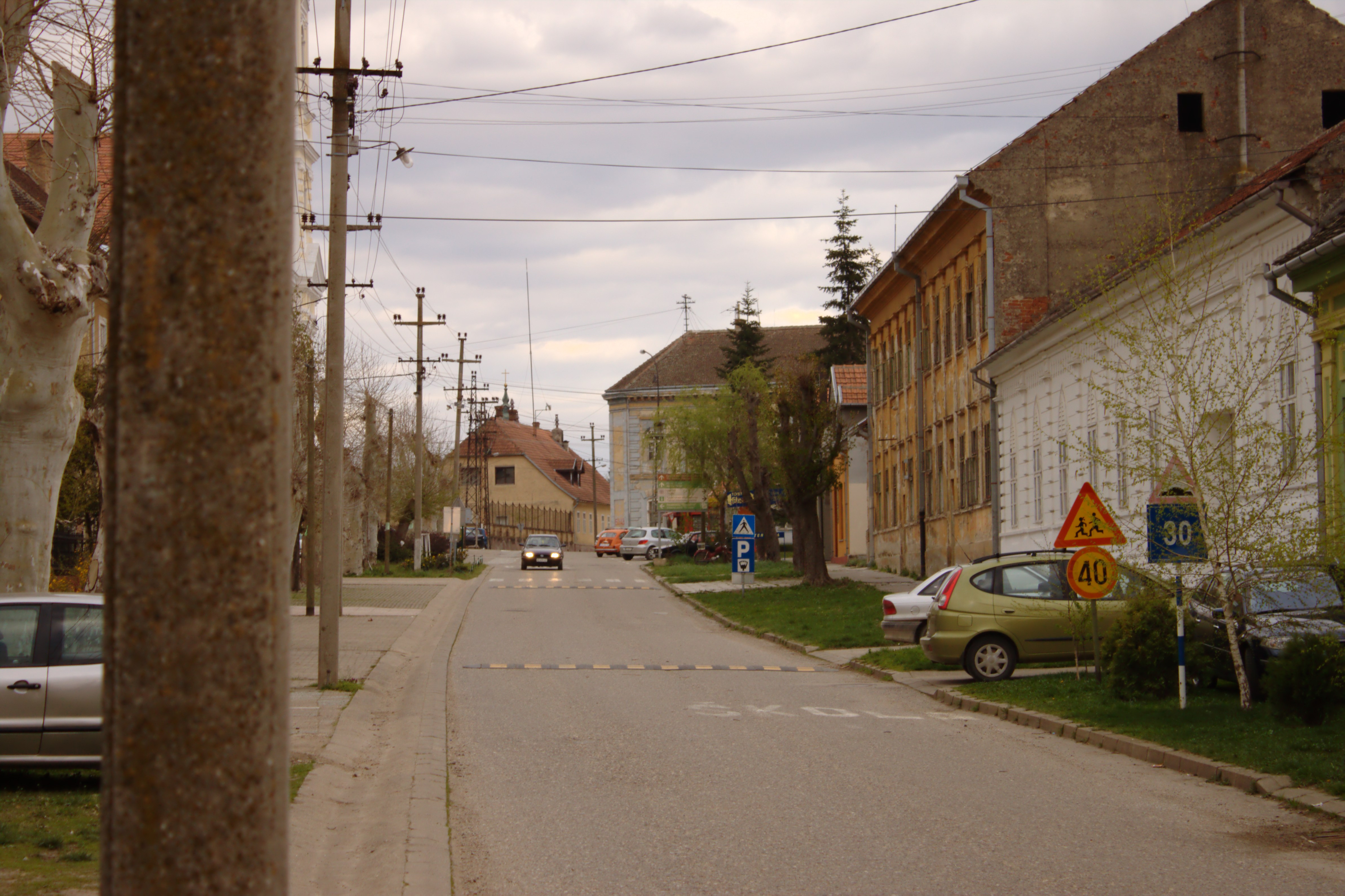 Eastern Vojvodina